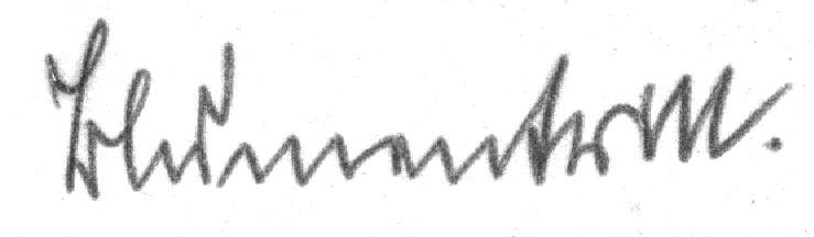 Signature of Günther Blumentritt, 10.2.1892-12.10.1967, in August 1941 chief of the general staff of the Wehrmacht's 4th Army